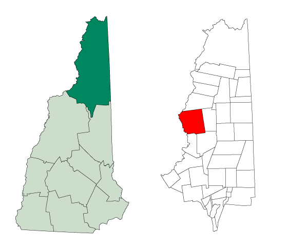 Map of a municipality in Coos County, New Hampshire